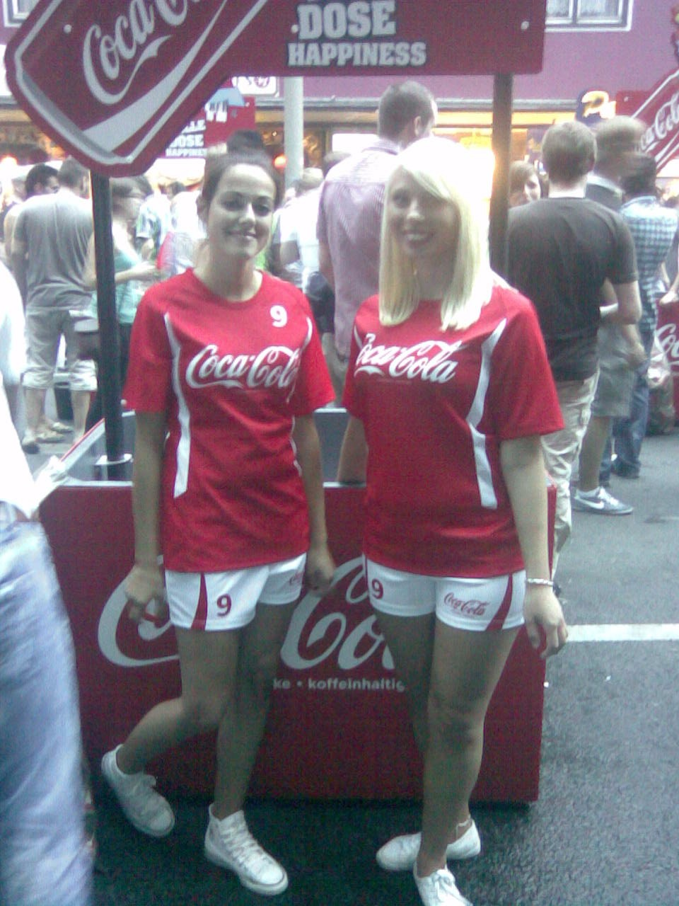 Promotion Bochum Total '10